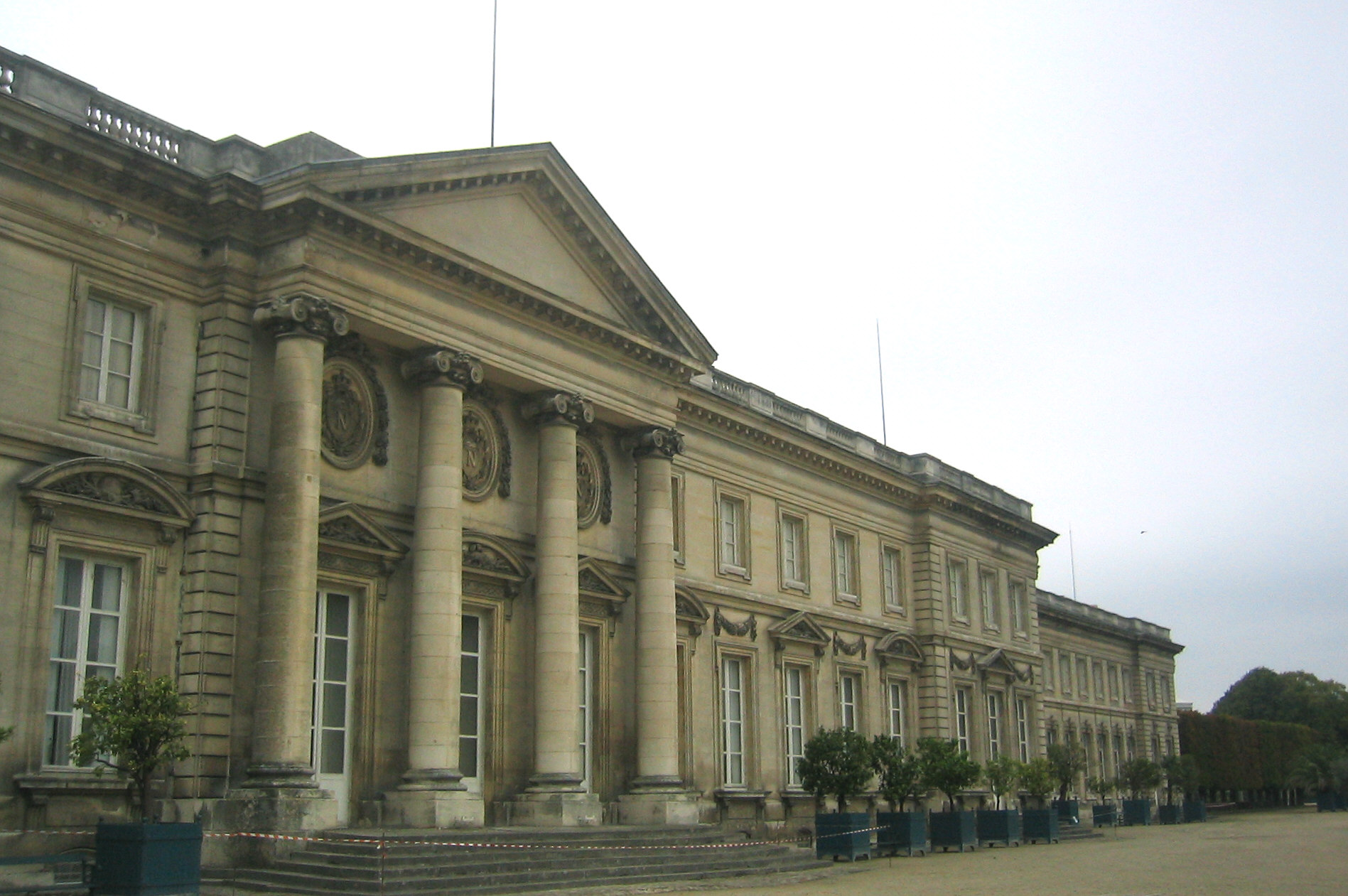 Compiègne, France: Château, view from the gardens